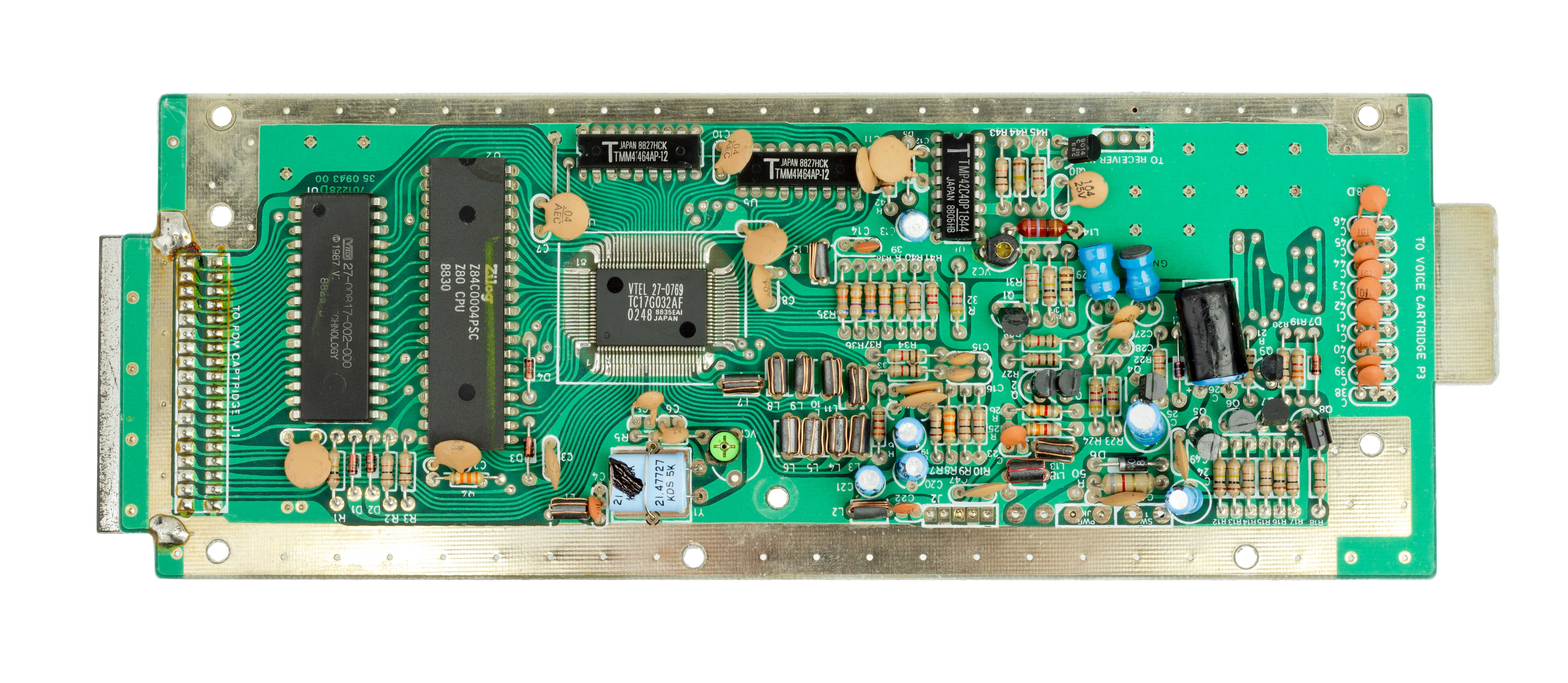 The motherboard of the Socrates, an educational entertainment ("edutainment") video game console released in 1988 by VTech. Powered by a Zilog Z80 processor, the board has two expansions for a voice cartridge and game cartridge. The system is comparatively weak, due to being designed to run off 6 D batteries.